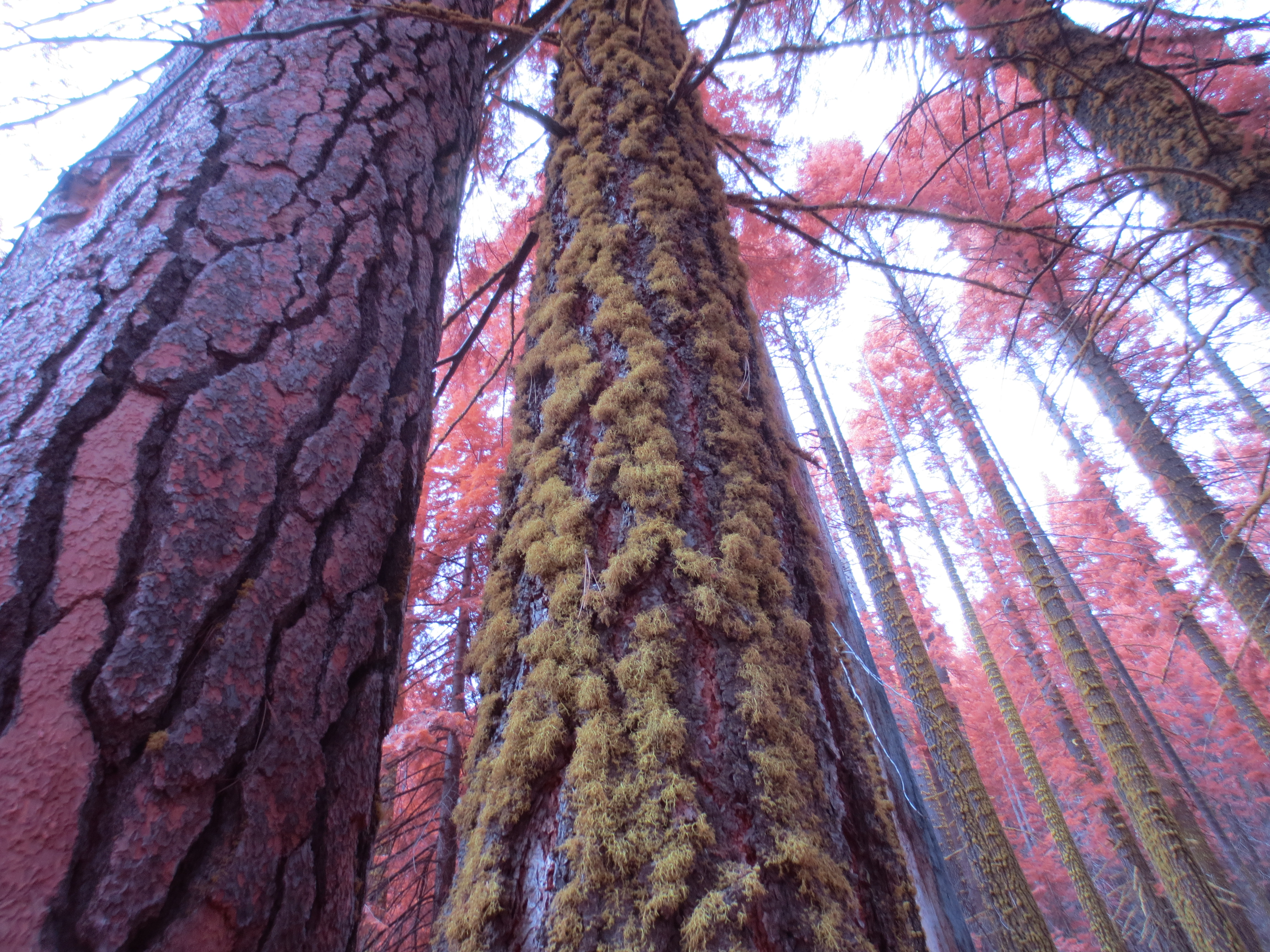 Near Infrared Spectrum represented with orange